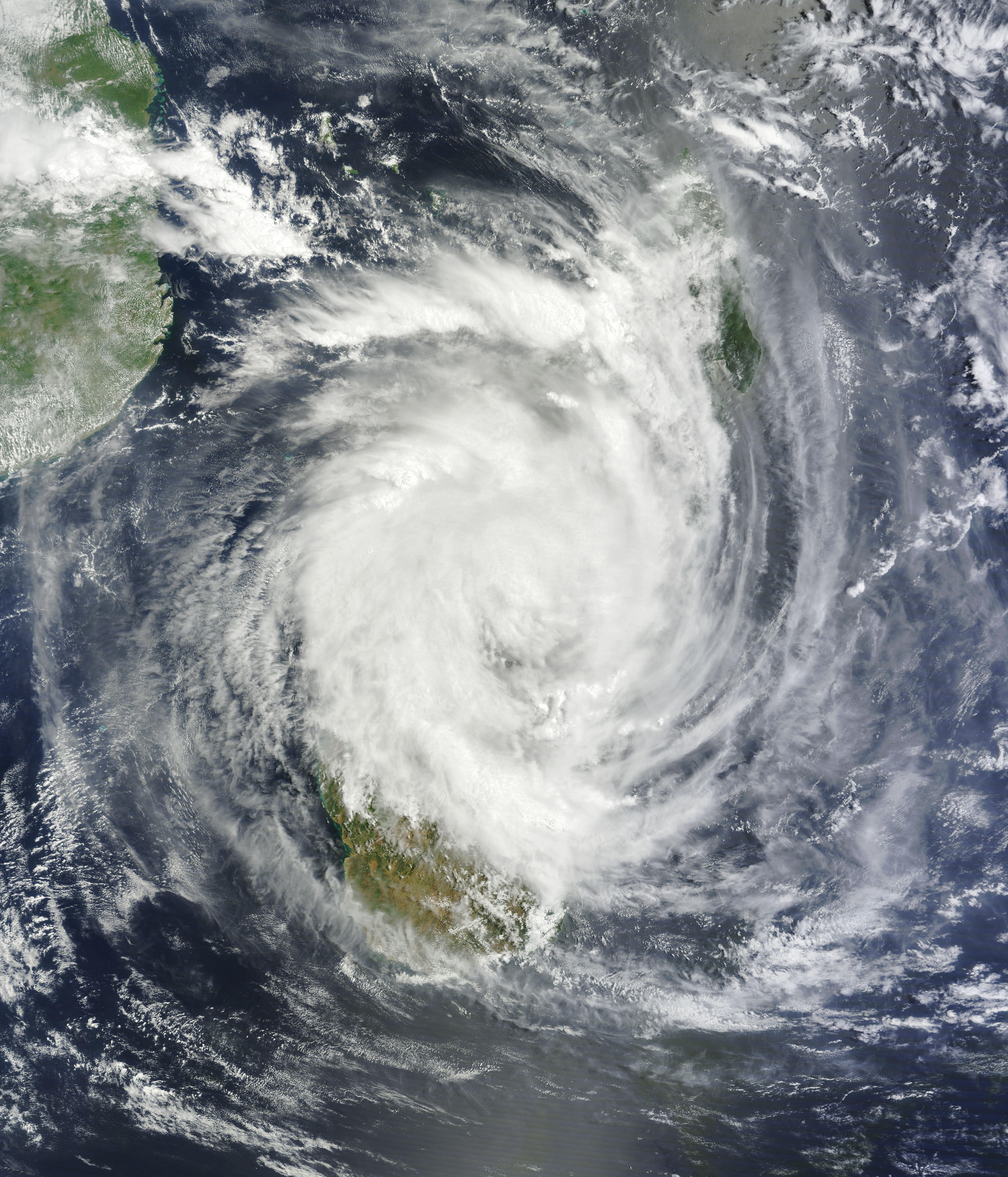 Tropical Cyclone Giovanna came ashore in eastern Madagascar as a powerful storm, ripping roofs off houses, downing trees, and cutting power to the capital city of Antananarivo, news reports said. At least one person had been killed. As predicted, the storm weakened after making landfall. By the afternoon of February 14, 2012, wind speeds had dropped to 35 knots (65 kilometers per hour), according to the U.S. Navy’s Joint Typhoon Warning Center (JTWC). This was down from 125 knots (230 kilometers per hour) the day before. The Moderate Resolution Imaging Spectroradiometer (MODIS) on NASA’s Terra satellite captured this natural-color image on February 14, 2012. Having made landfall, the storm appears less organized than it did the previous day, but storm clouds almost completely hide the island of Madagascar. Consistent with earlier predictions, the JTWC forecast that Giovanna would continue moving west, and quickly reorganize over the Mozambique Channel. But the forecast changed between February 13 and 14. Earlier forecasts had called for Giovanna to make landfall in Mozambique, but by February 14, the projected storm track showed Giovanna curving back toward the southeast before reaching the Mozambique coast. Madagascar is no stranger to powerful cyclones. In 2008, Cyclone Ivan killed dozens and left thousands homeless. Likewise, warm waters of the Mozambique Channel have sustained strong storms. Just weeks before Giovanna arrived in the area, Cyclone Funso hovered over the channel for days.